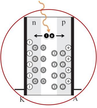 p-n junction